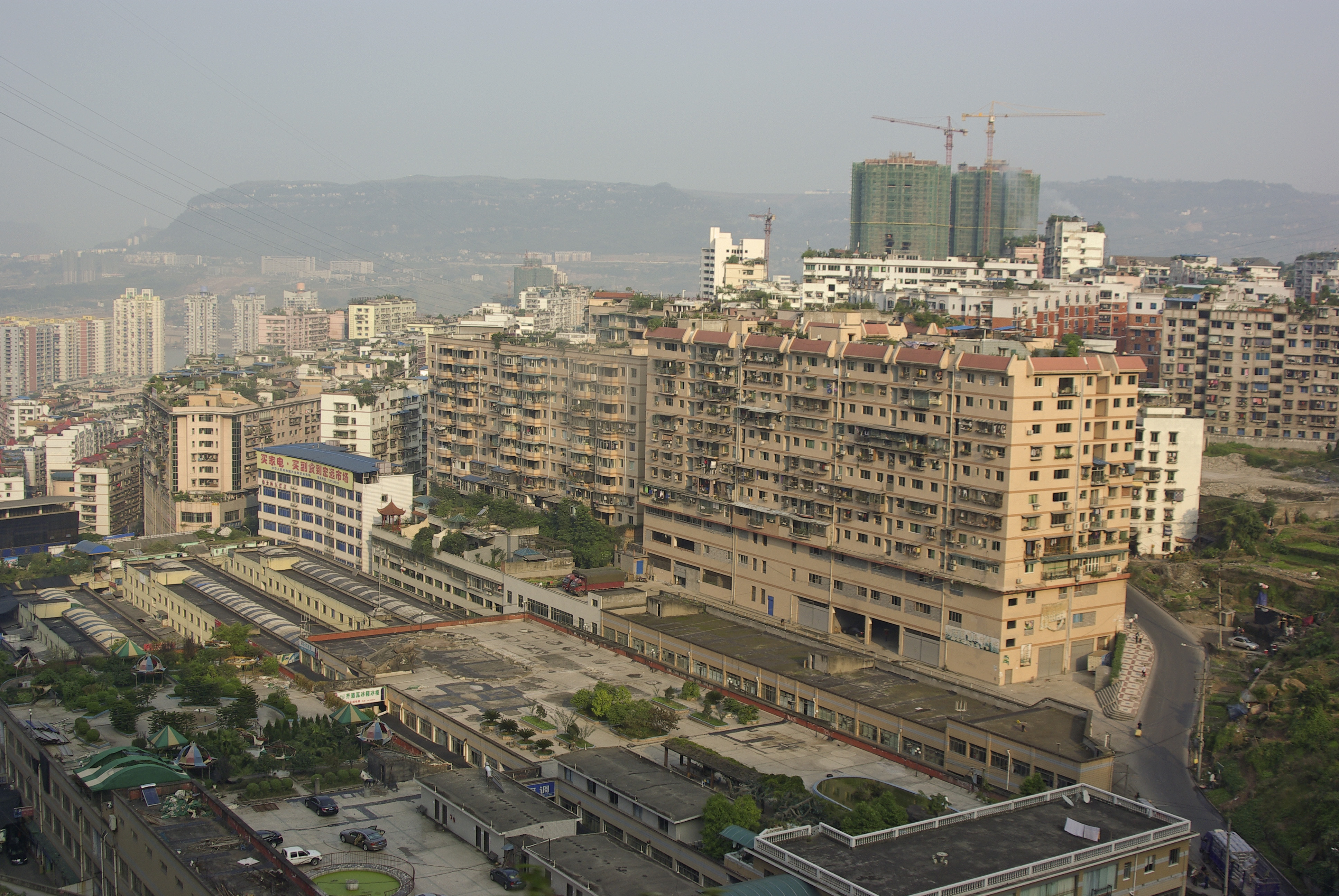 The following is the author's description of the photograph quoted directly from the photograph's Flickr page. "Wanzhou City lies on the Three Gorges Reservoir between Chongqing and Yichang. After the three gorges dam is completd 47% of the city will be under water. The new high rise housing accomodation in Wanzhou city. This construction is to re-house those who have had to move as a result of e demolition to allow the water level in the reservoir be brought to full height upon completion of the dam. China 2008 "